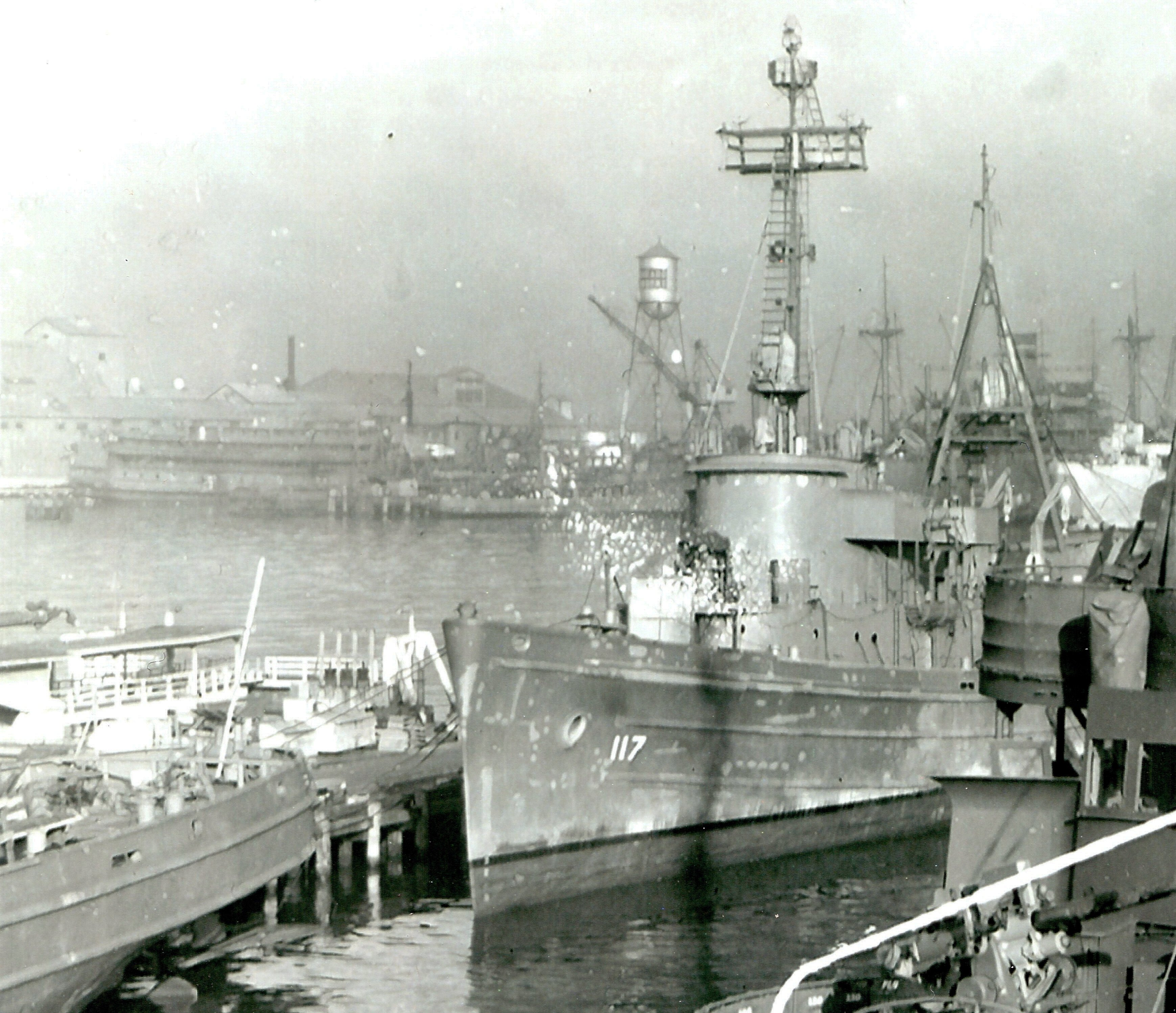 USS Wateree (ATF-117) fitting out at United Engineering Co, Alameda CA, 9 December 1944. The stern of USS Tolowa (ATF-116) visible just forward. This rare photo is the only one known to exist of the ship, which sank during Typhoon 'Louise' at Okinawa less than a year later with the loss of eight sailors, including her CO and XO. US National Archives photo # 19-N-79509, a US Navy BUSHIPS photo now in the collections of the US National Archives.